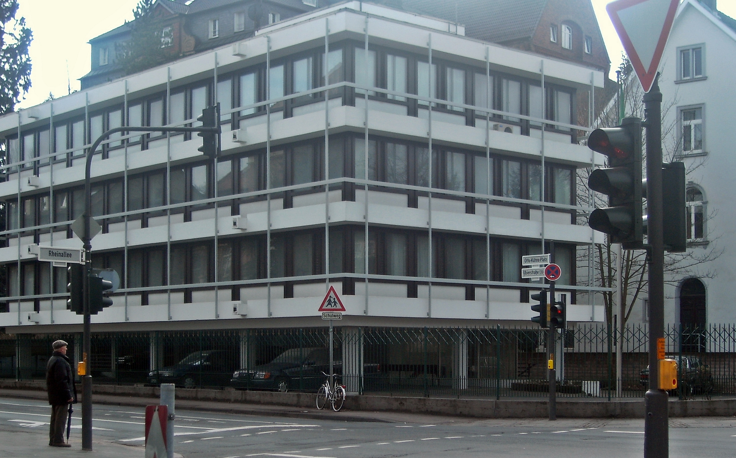 Former German Embassy of the Republic of Cameroon in the municipal district Bad Godesberg in Bonn (till March 2009).